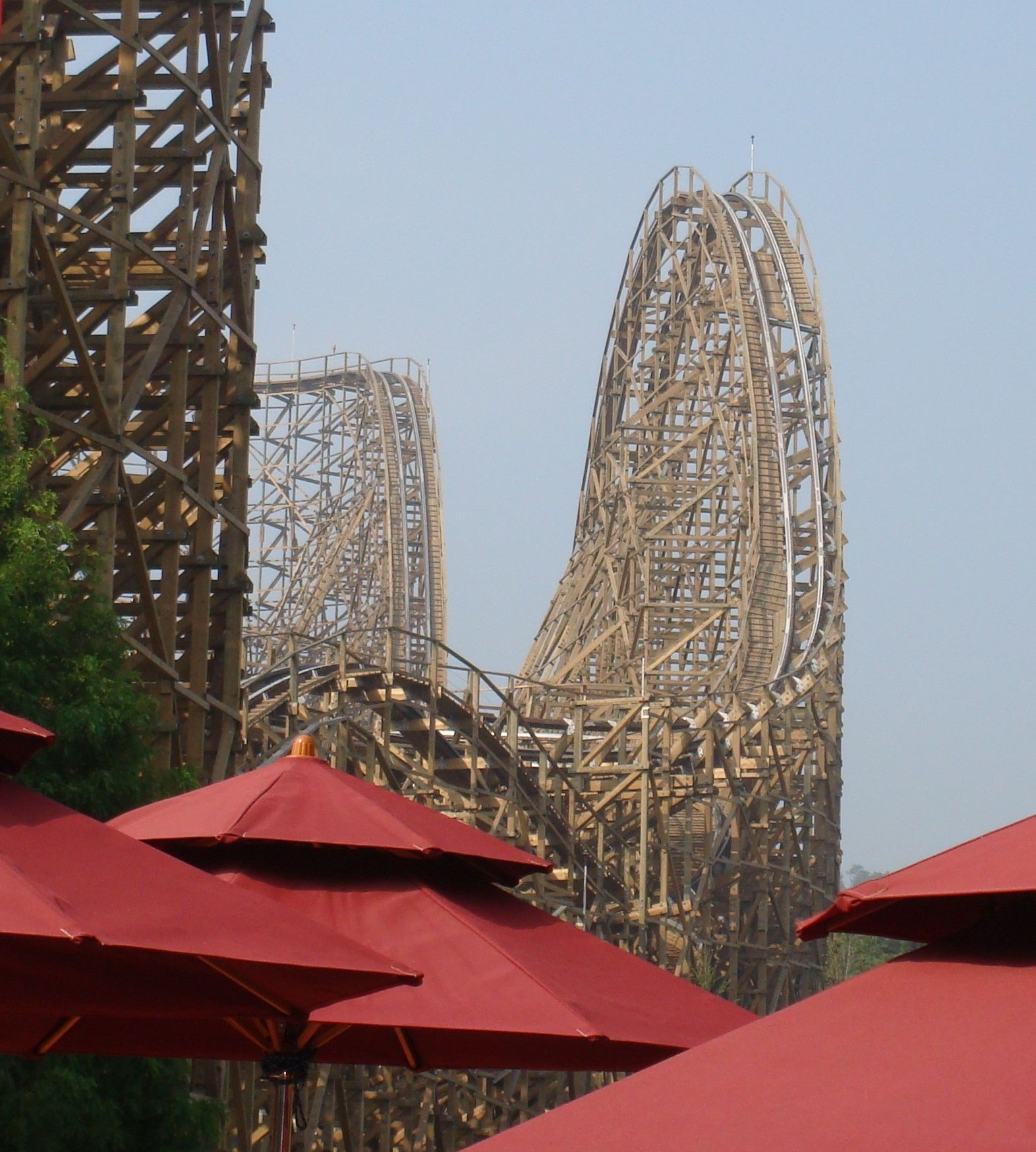 T Express at Everland, South Korea